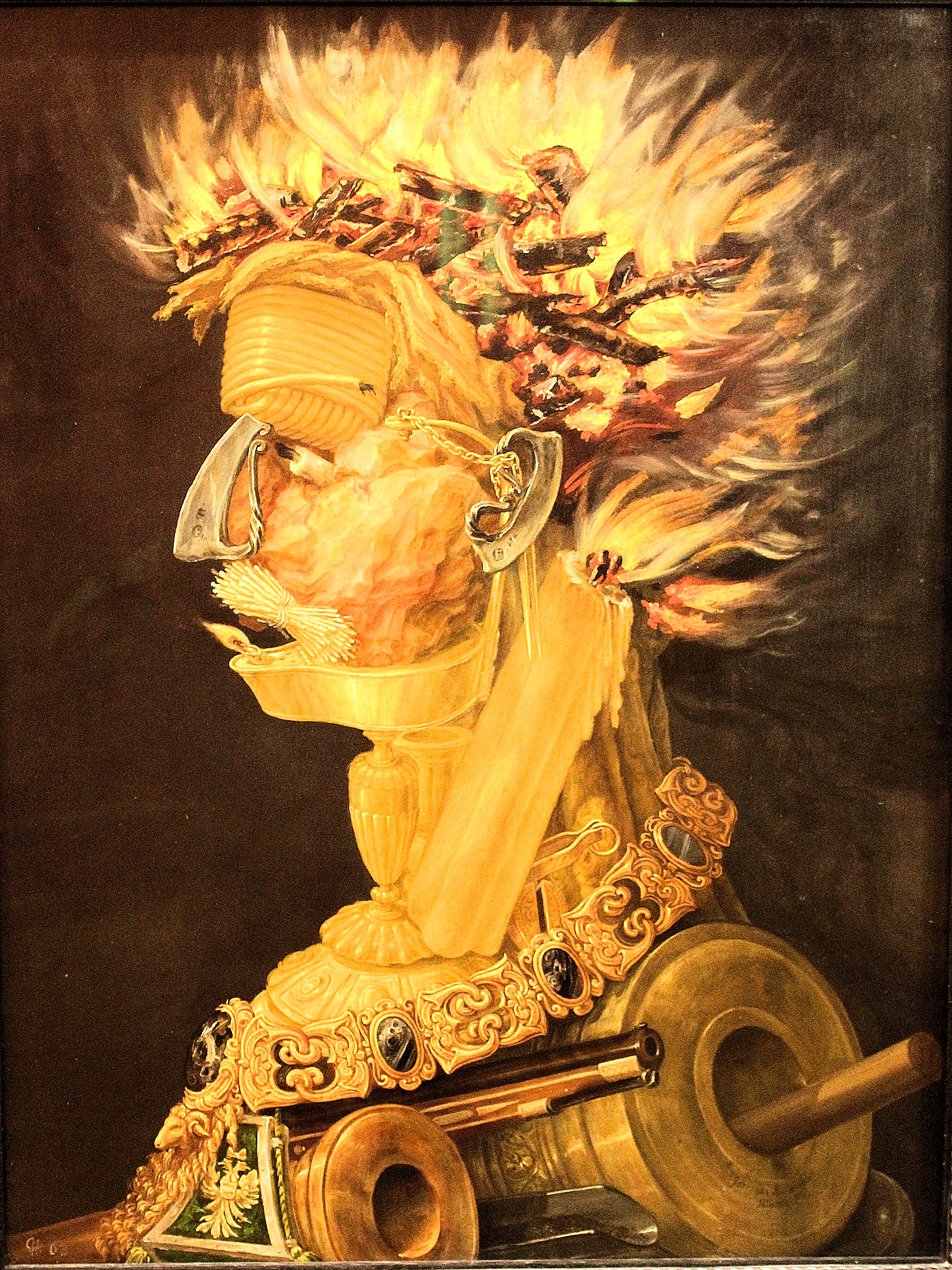 Vienna, Museum of Art History, Giuseppe Arcimboldo, fire